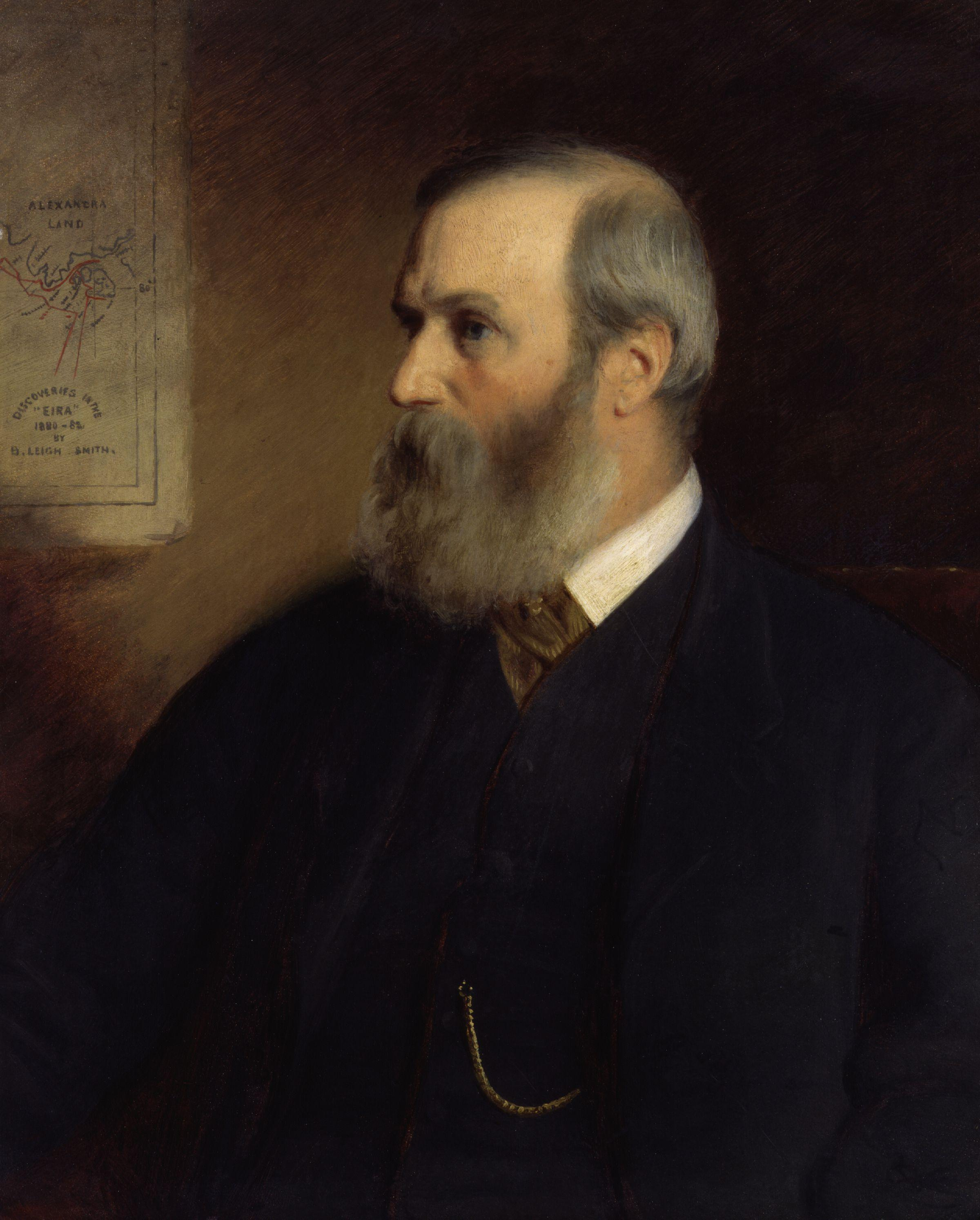 Benjamin Leigh Smith, by Stephen Pearce (died 1904). All images in this batch have been confirmed as author died before 1939 according to the official death date listed by the NPG.